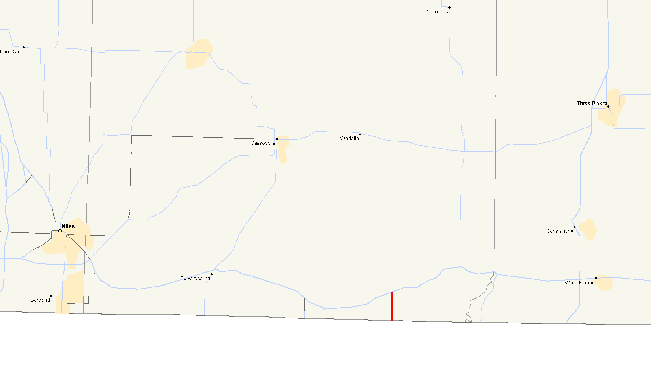 Map of M-217